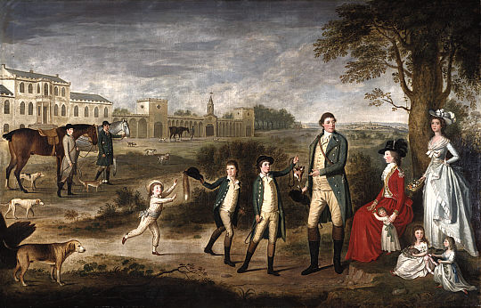 David Allan. Sir William Erskine, 1st Baronet and his family. 1788. Oil on canvas. 153.7 × 240 cm. Edinburgh, Scottish National Portrait Gallery.